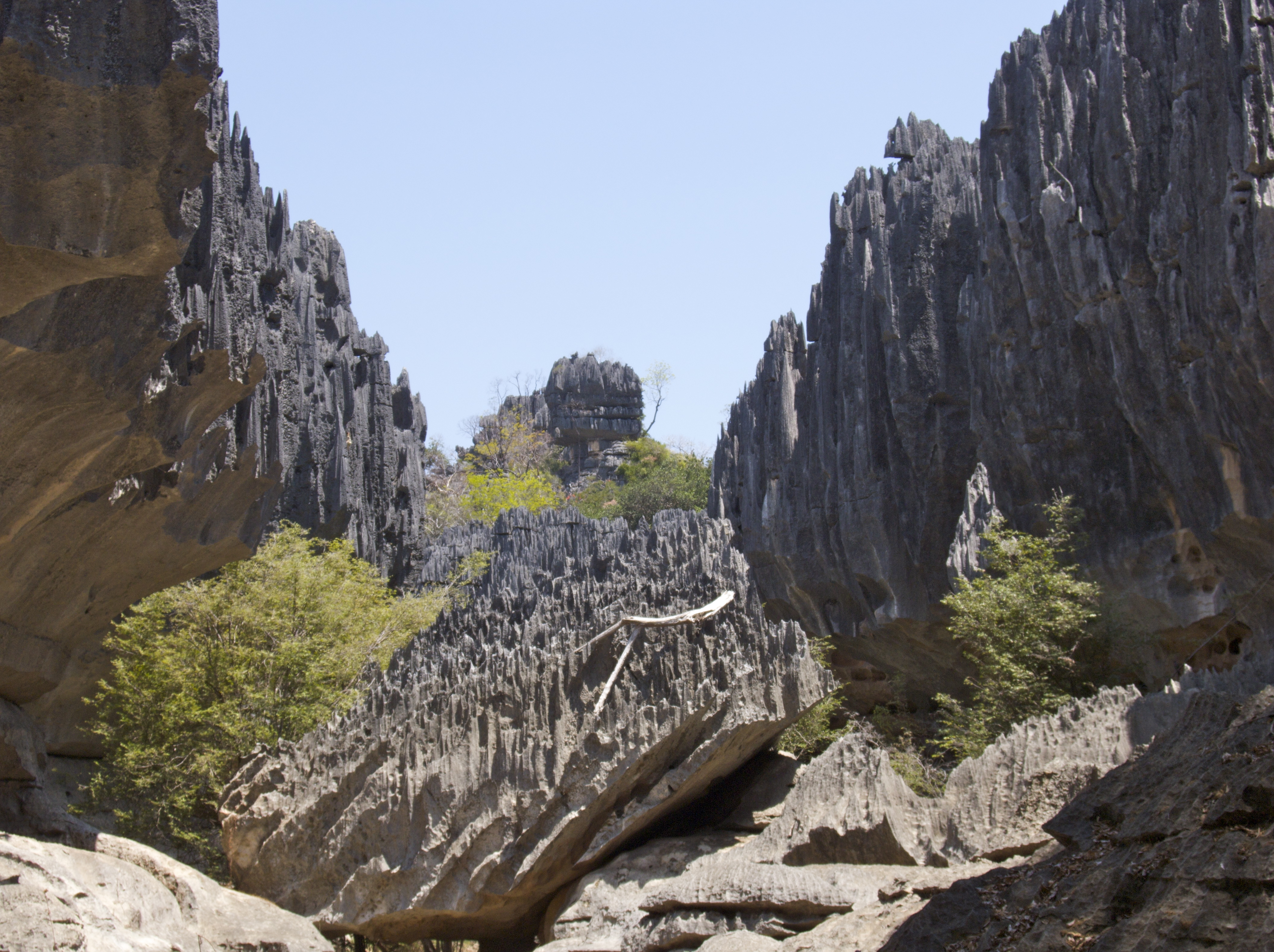 Tsingy at Namoroka National Park in Madagascar taken at -16.3028777778, 45.3465277778